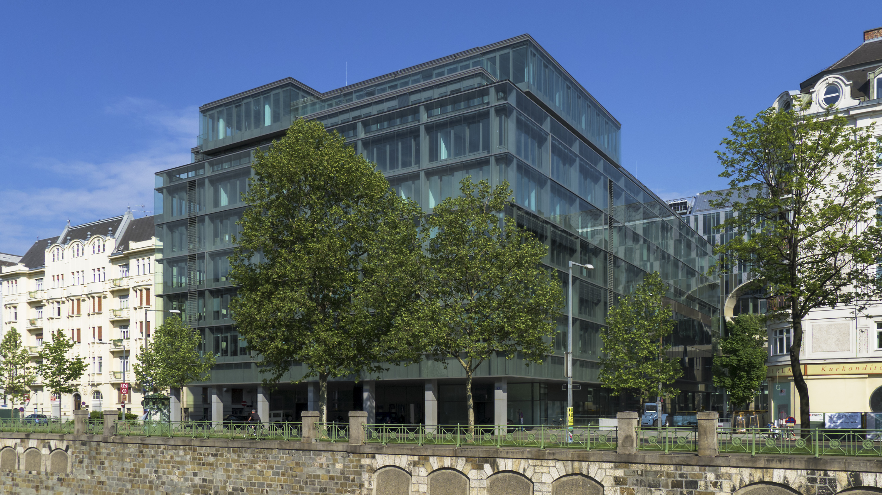 Office building Vz13 in Vienna 3